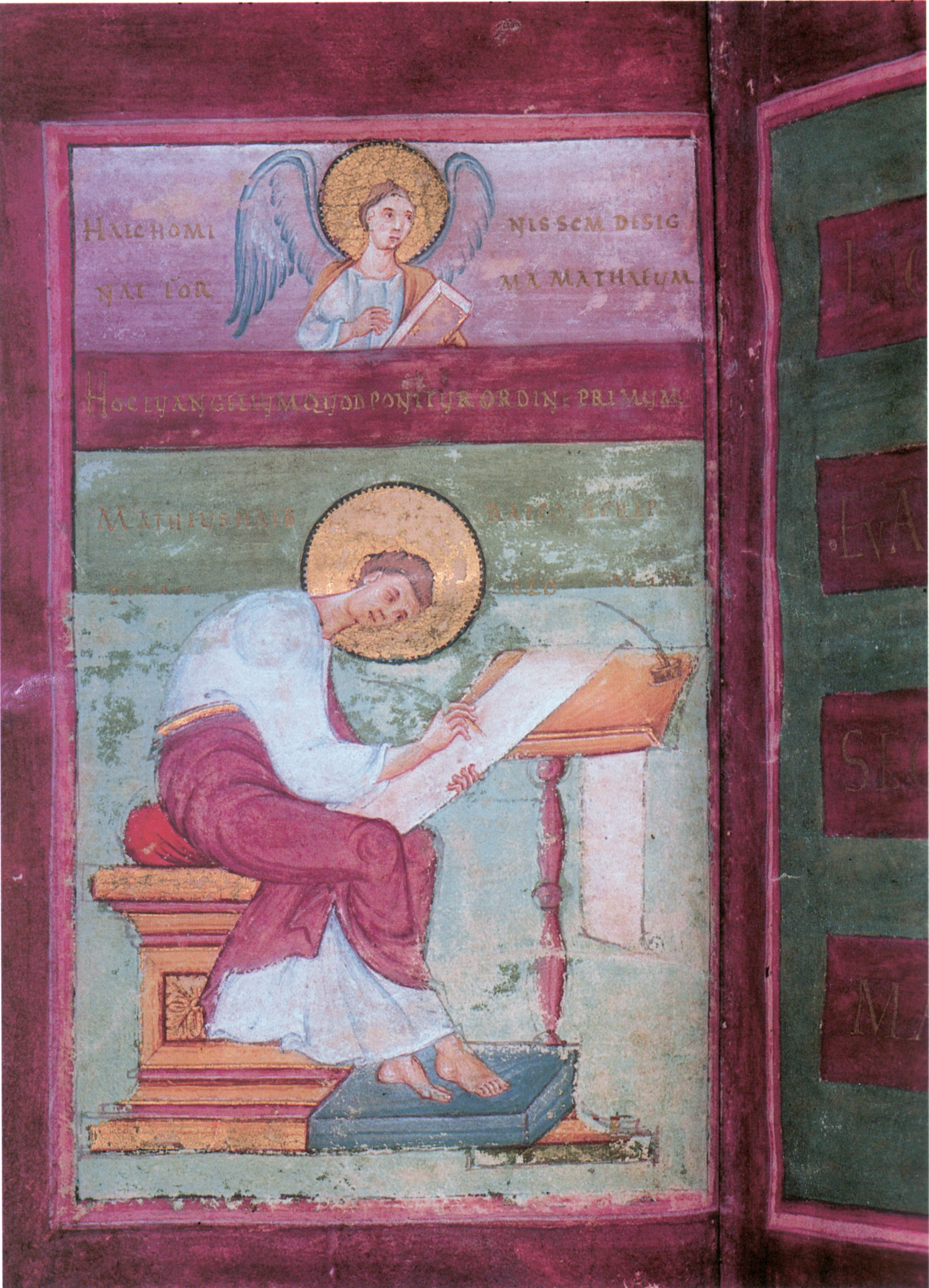 fol. 8v of Strahov Ms DF III 3 - Matthäus